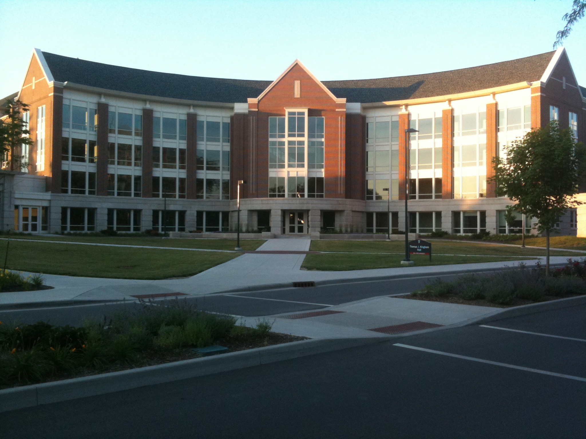 Kinghorn Hall